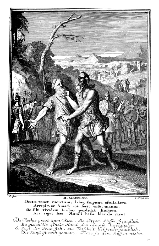 Copper engraving. Joab slays Amasa. From "Historiae celebriores Veteris Testamenti Iconibus representatae", Caspar Luiken (author). Call Number at Pitts Theology Library: 1712BiblA.